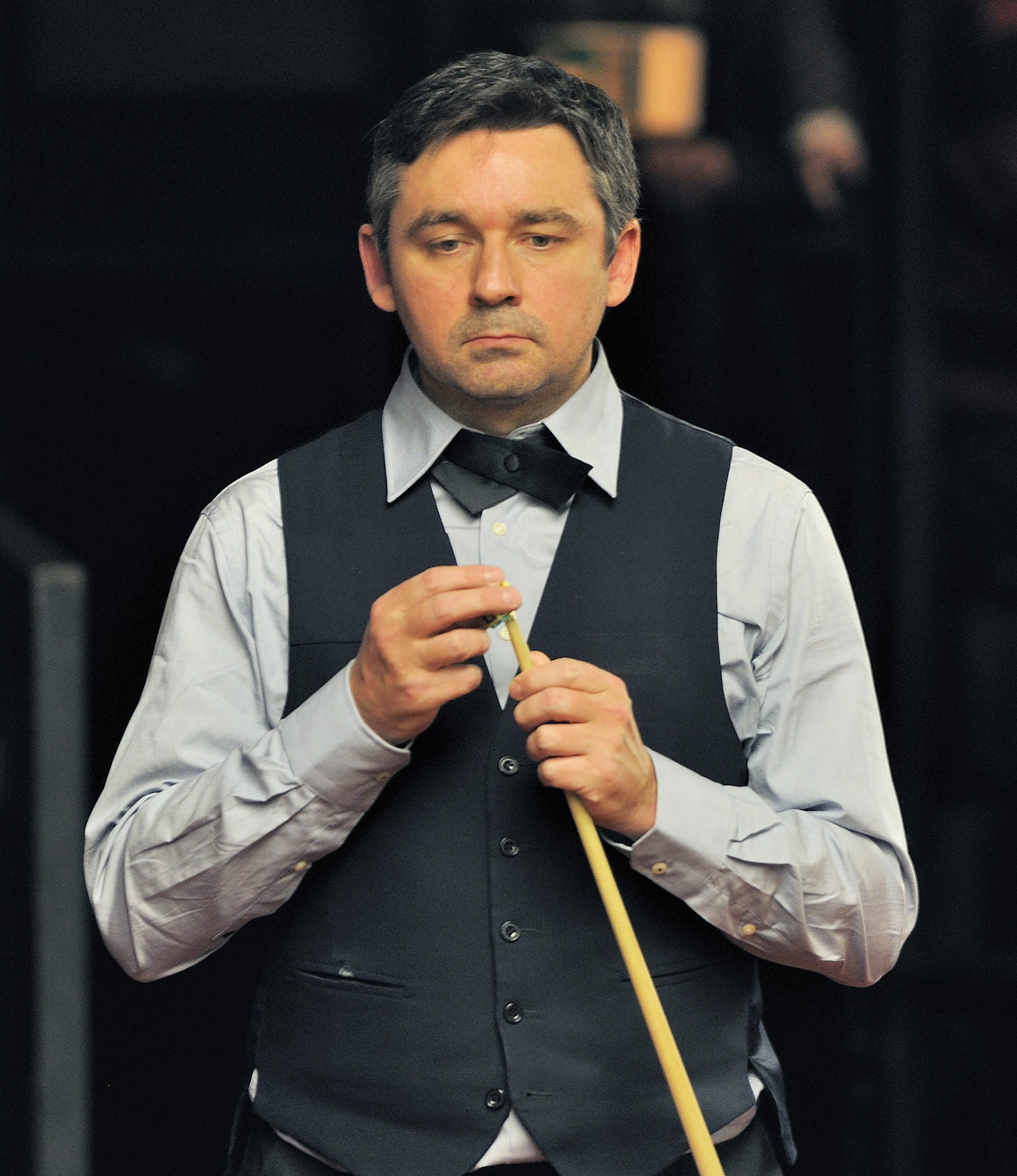 Picture taken in Berlin during the Snooker German Masters in 2014. Alan McManus.